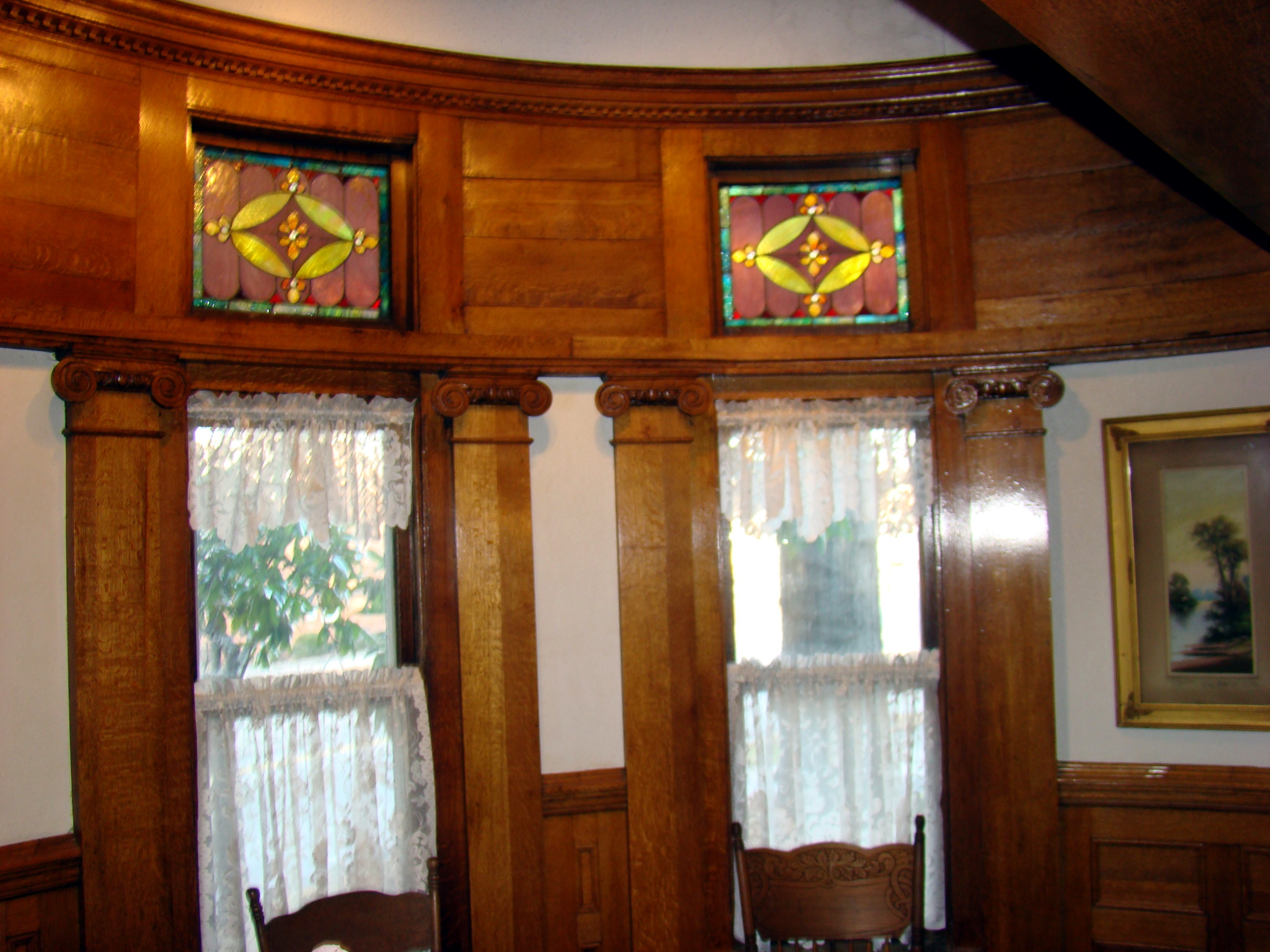 Stained glass window in dining room of The Simmons-Bond House, located in Toccoa, Georgia. The house was constructed by architect Levi Prater for lumberman James B. Simmons in 1903. The mansion is now a Victorian inn.